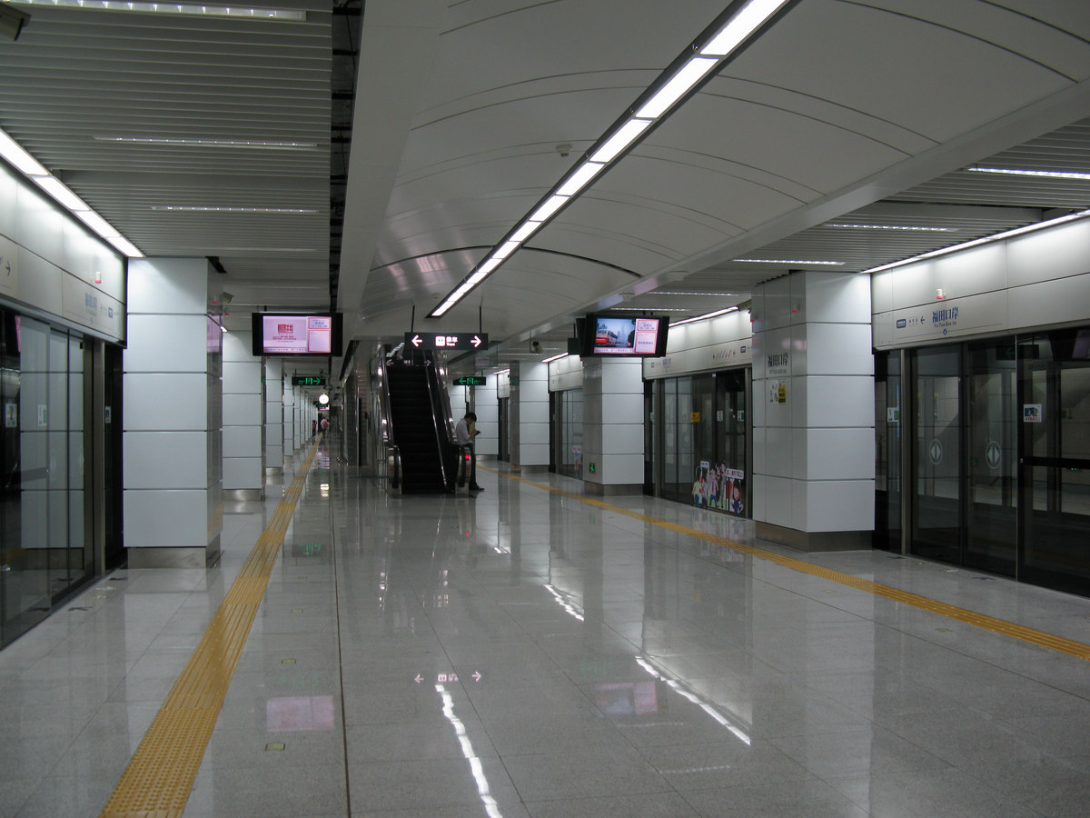 Line 4 Island Platform of Fu Tian Kou An Station, Shenzhen Metro, view towards Fu Min Station